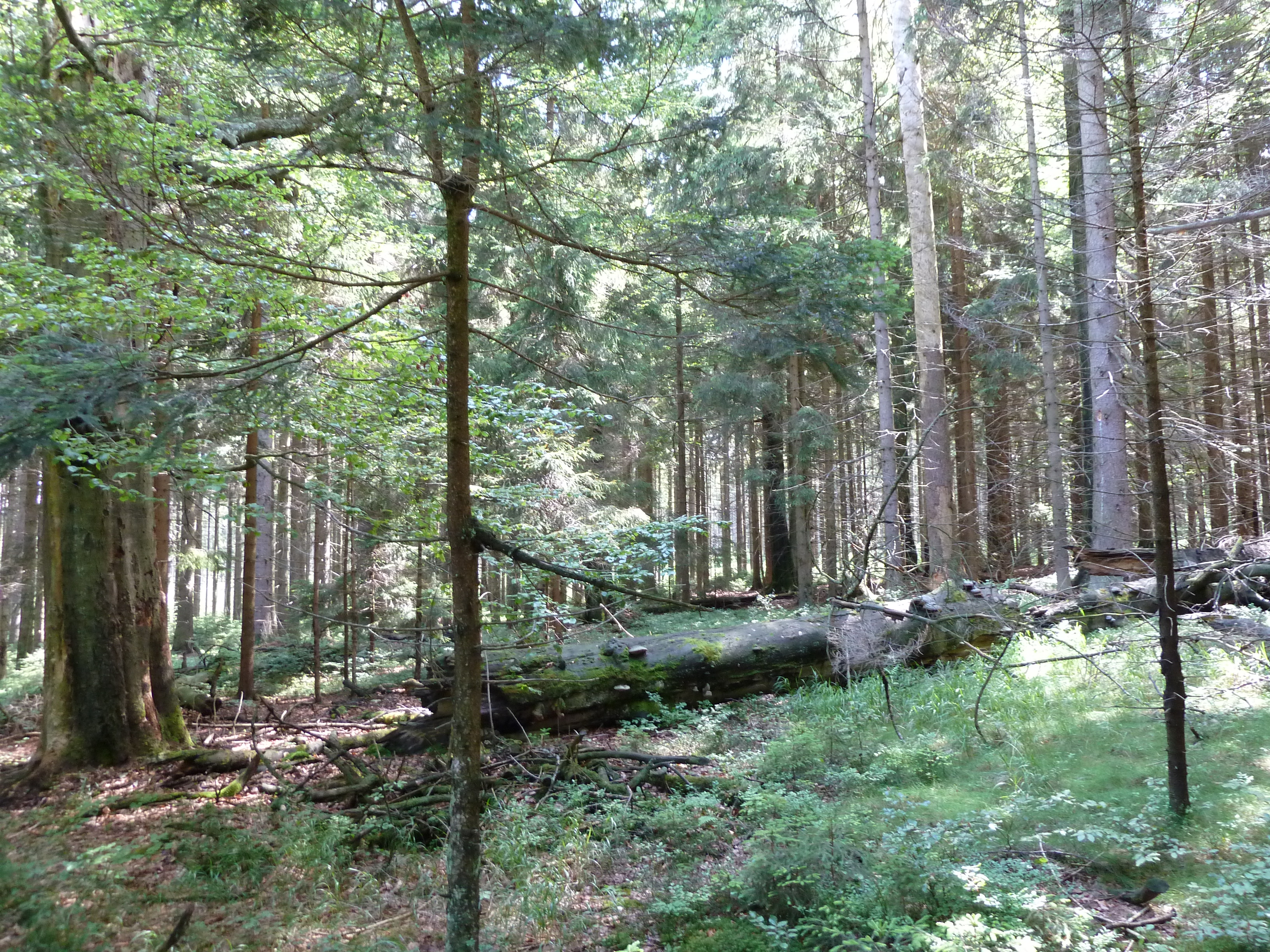 Natural monument Míšovské buky; Míšov, Czech Republic